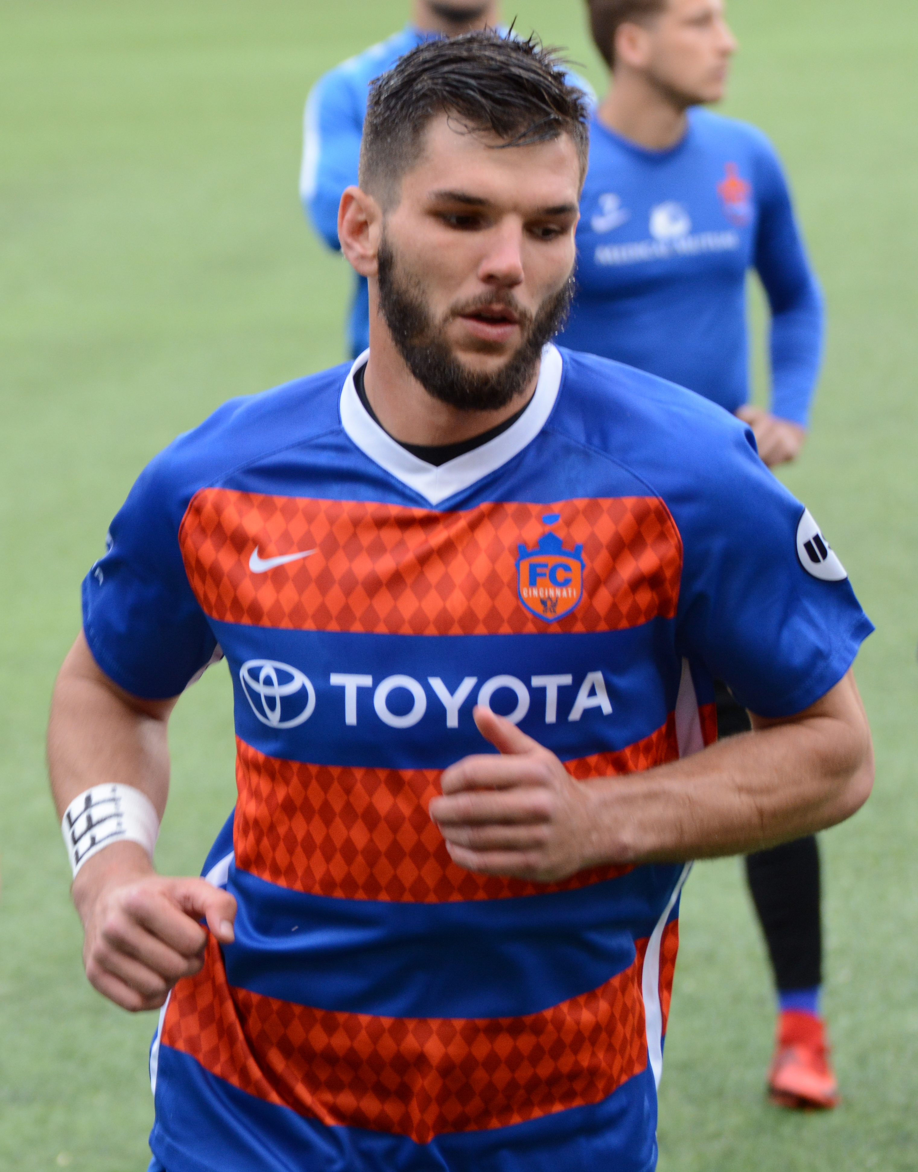 Taken during a USL regular season match between FC Cincinnati and Pittsburgh Riverhounds at Nippert Stadium in Cincinnati, USA on April 21, 2018.